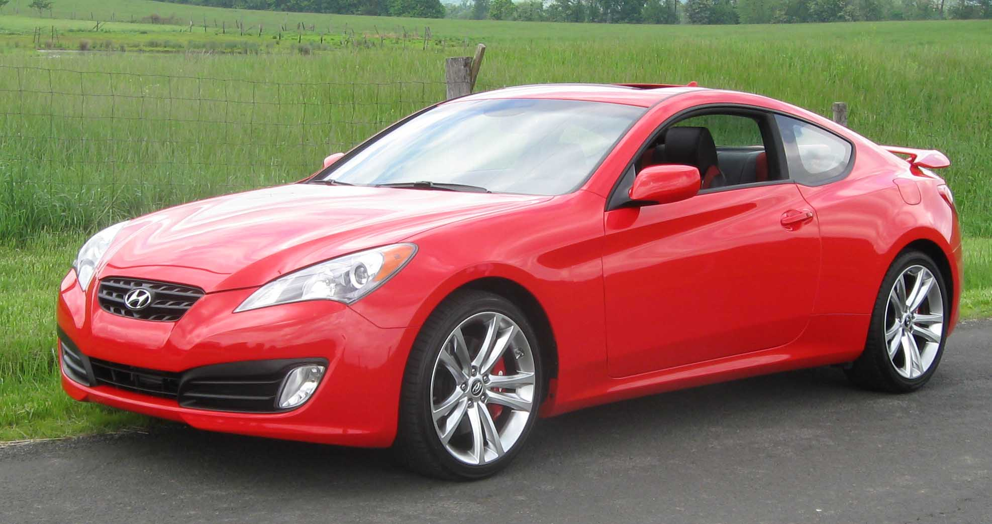 2010 Hyundai Genesis Coupe photographed in Marshall, Virginia, USA.